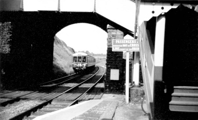 Caerleon Station. This train was heading north on the 'Eastern Valleys' route to Blaenavon. The station (and the route to Blaenavon) are both closed but this line is still open carrying the Cardiff-Manchester trains. [Looking NE]